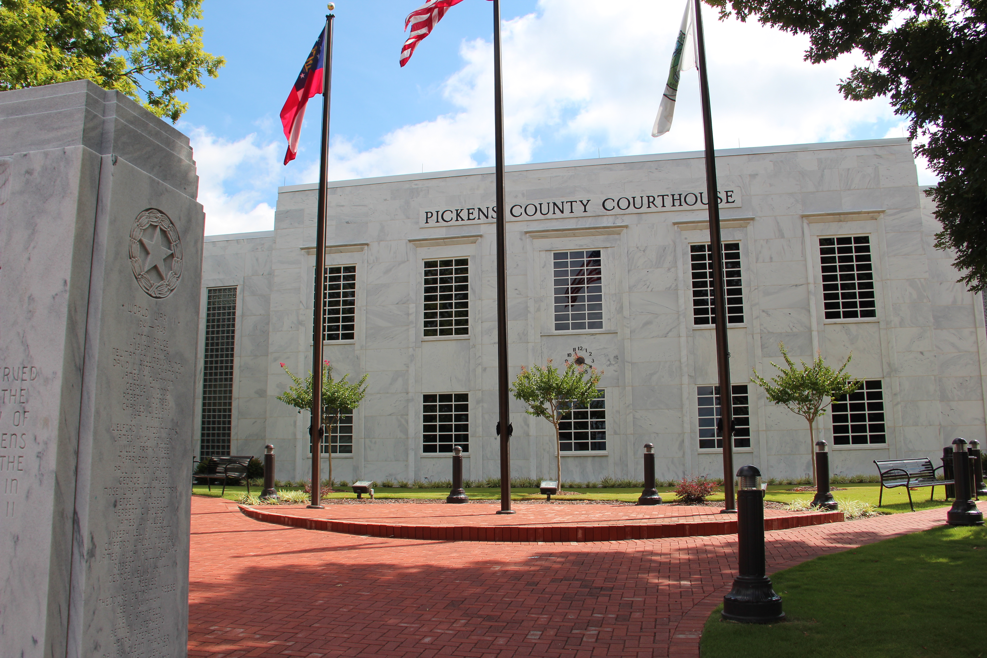 Pickens County Courthouse in 2015